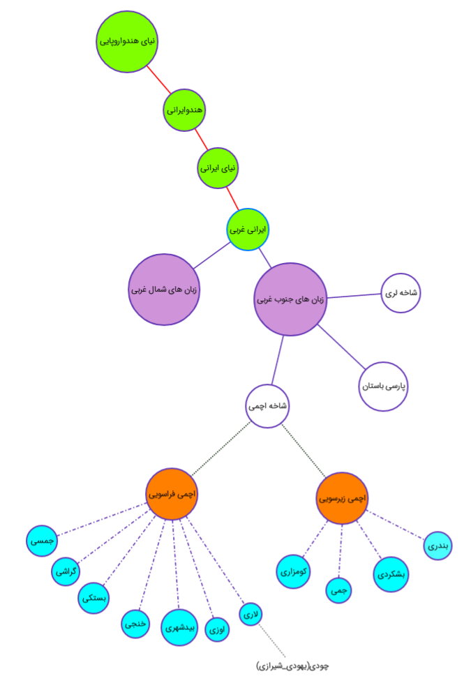 The place of the Achomi language in the large family of Indo-European languages